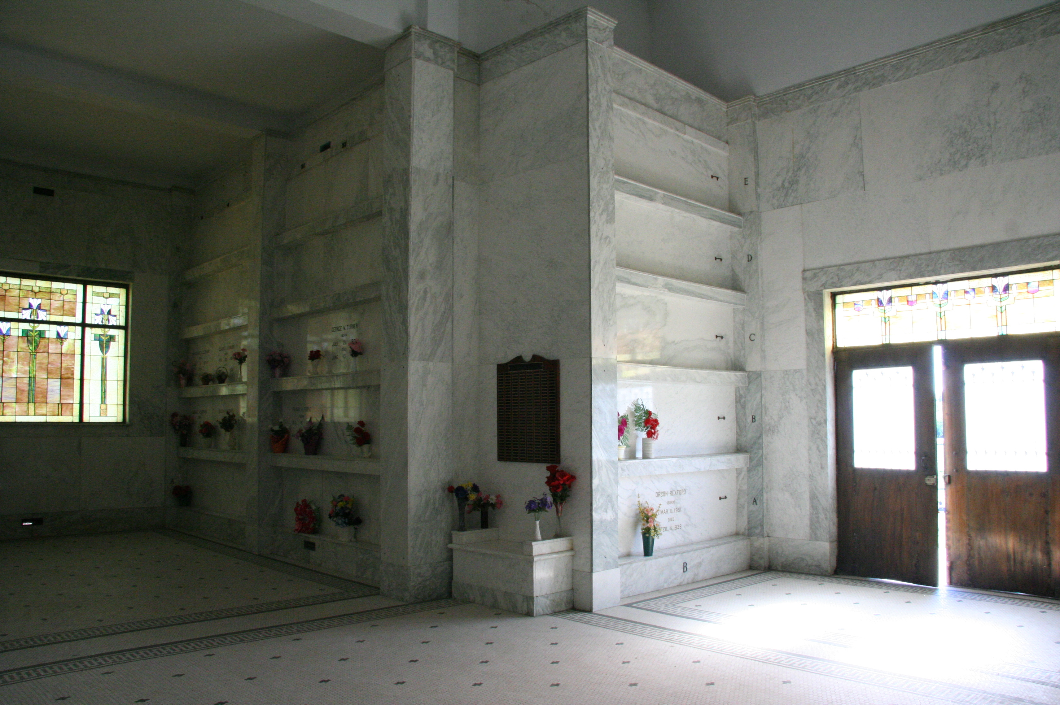 Interior view of the mausoleum in the Spring Valley Cemetery, Fillmore County, Minnesota